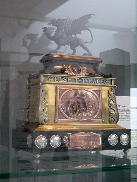 Welsh TT Trophy on display at Camarthen Museum